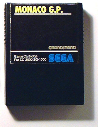 Sega SG-1000 game cartridge. The game is Monaco GP. The cartridge is a New Zealand version, published by Grandstand Leisure Ltd. Picture taken by AdorableRuffian on 10 October 2004, and licensed under the GFDL.